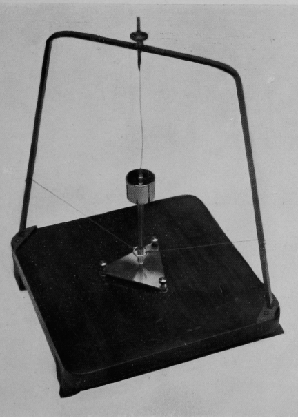 Zhang Heng's seismometer internal reproduction with inverted pendulum by Akitsune Imamura of Japan